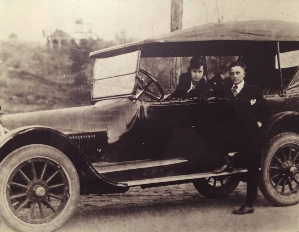 James Jefferson Webster and Nannie Hurt Strong with their car in Rockingham County, North Carolina